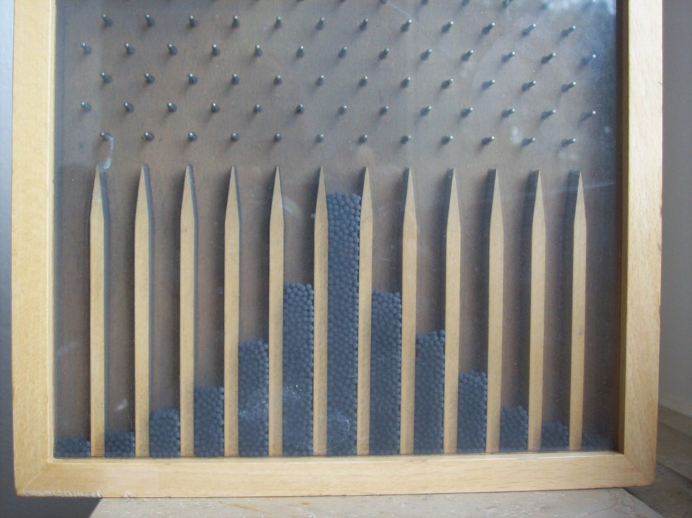 Galton box, result